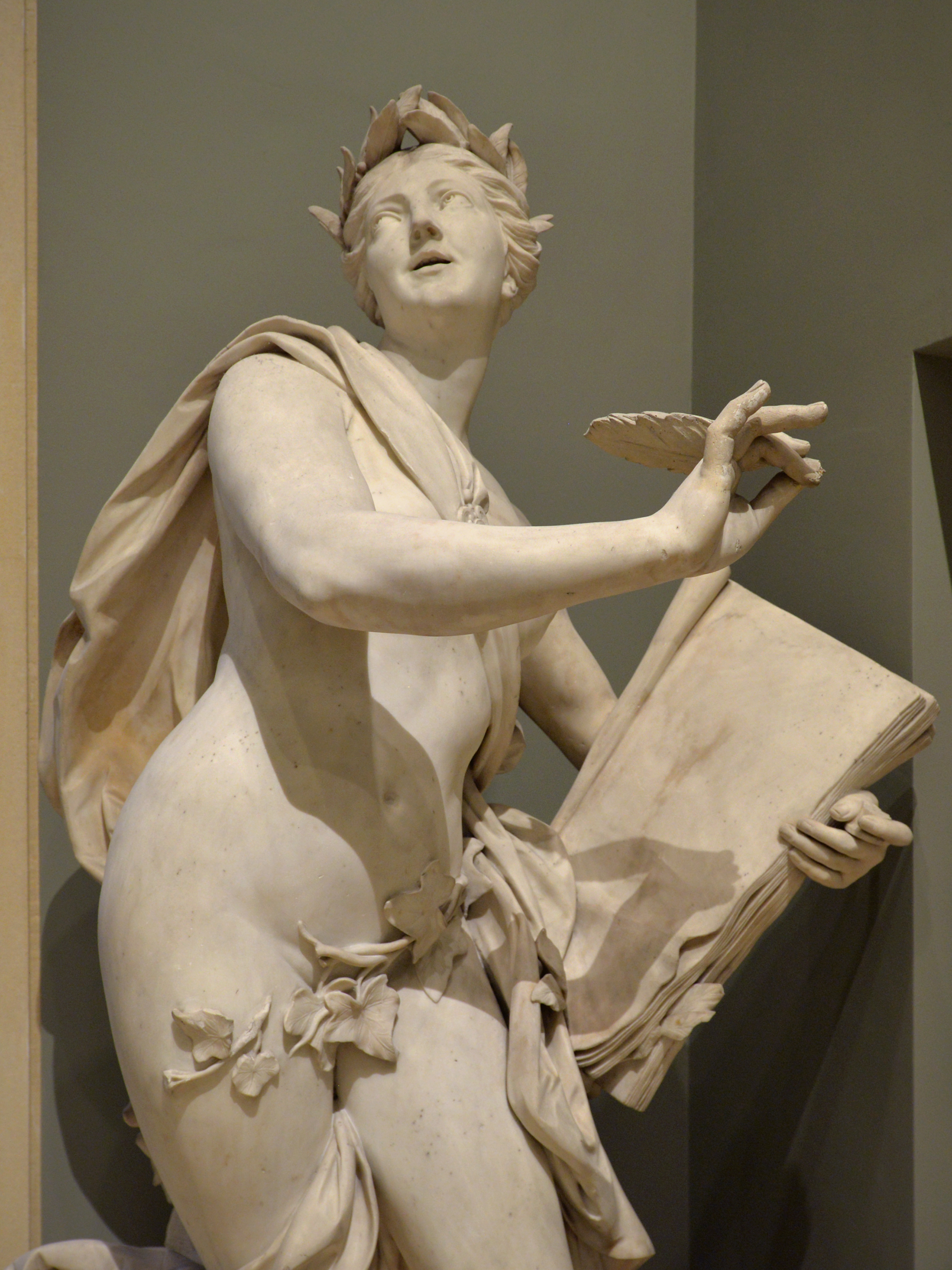 Poetry by Lambert Sigisbert Adam in 1752.